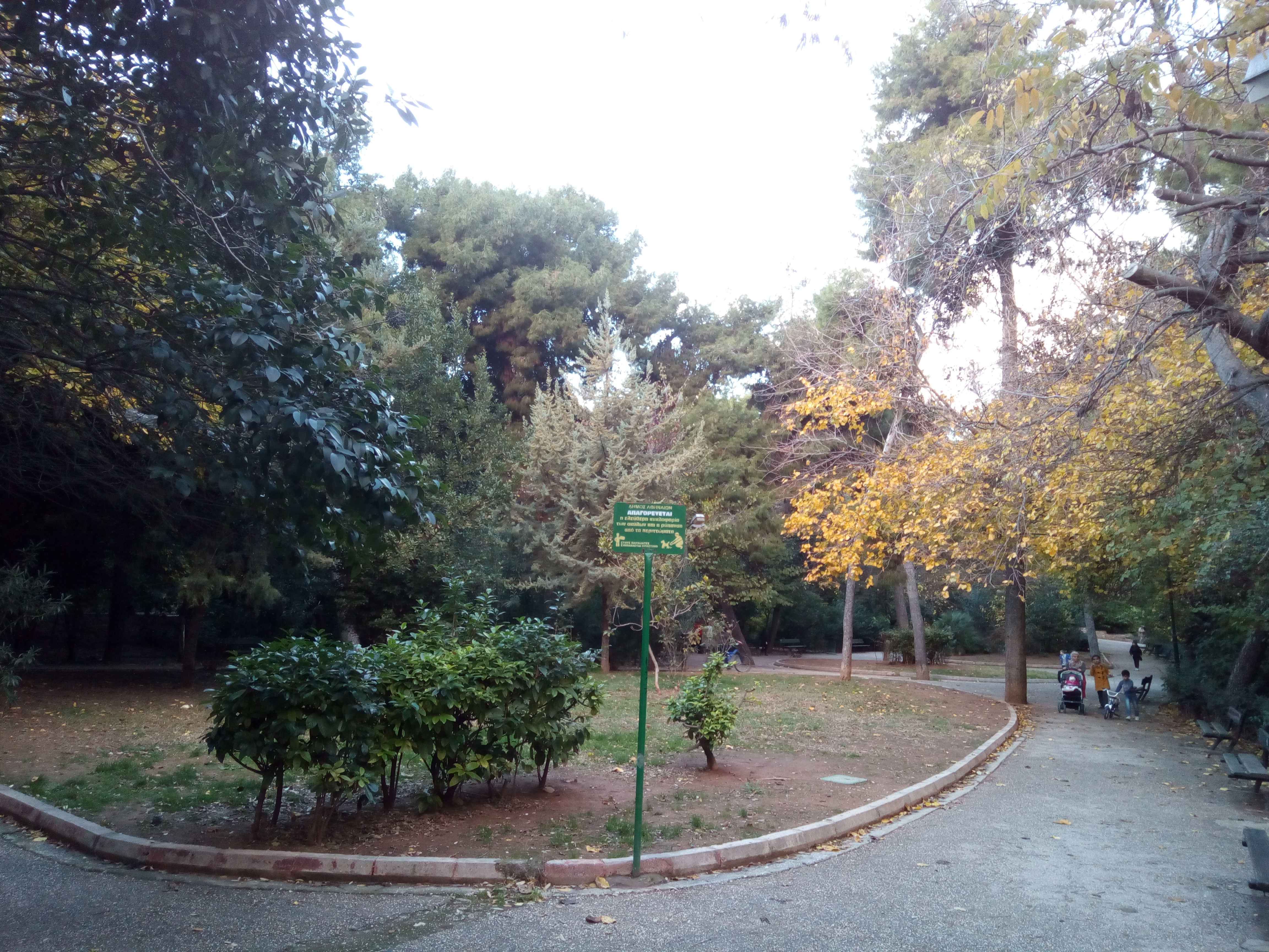 Part of the Pangrati grove